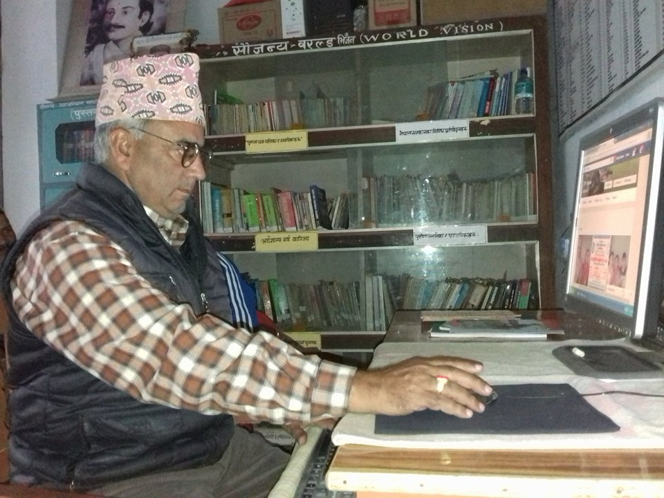 सामाजिक संजालमा निर्मल भण्डारी